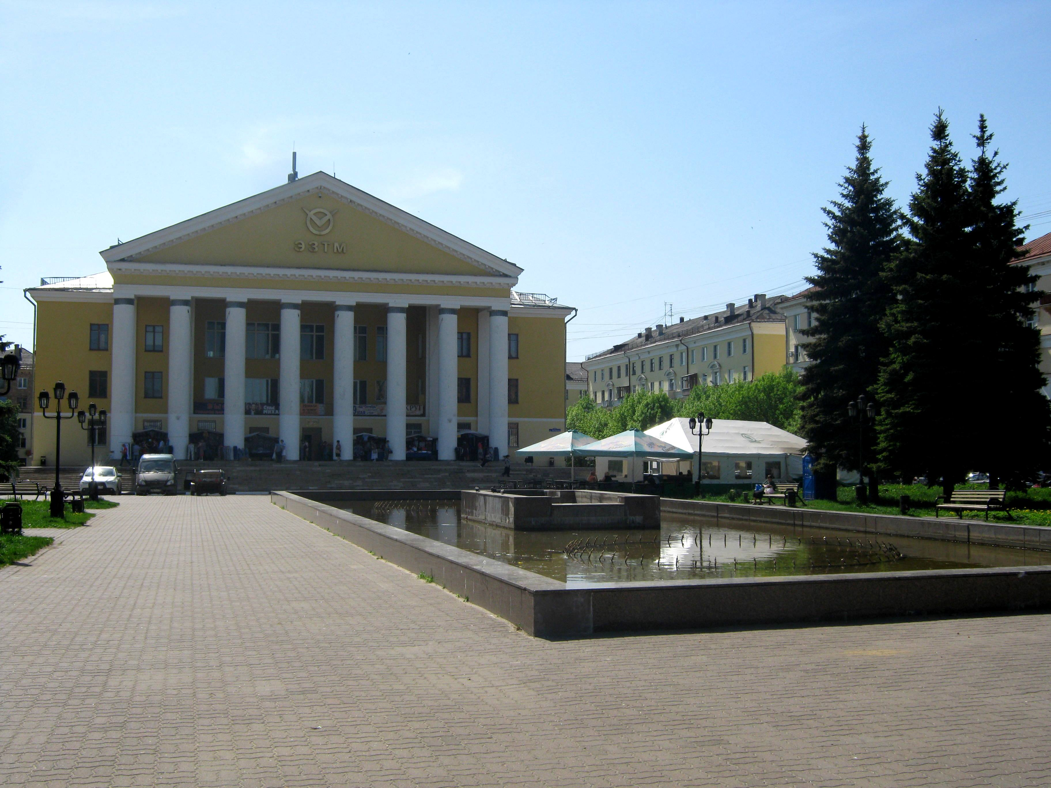 КЦ "Октябрь" (Электросталь)